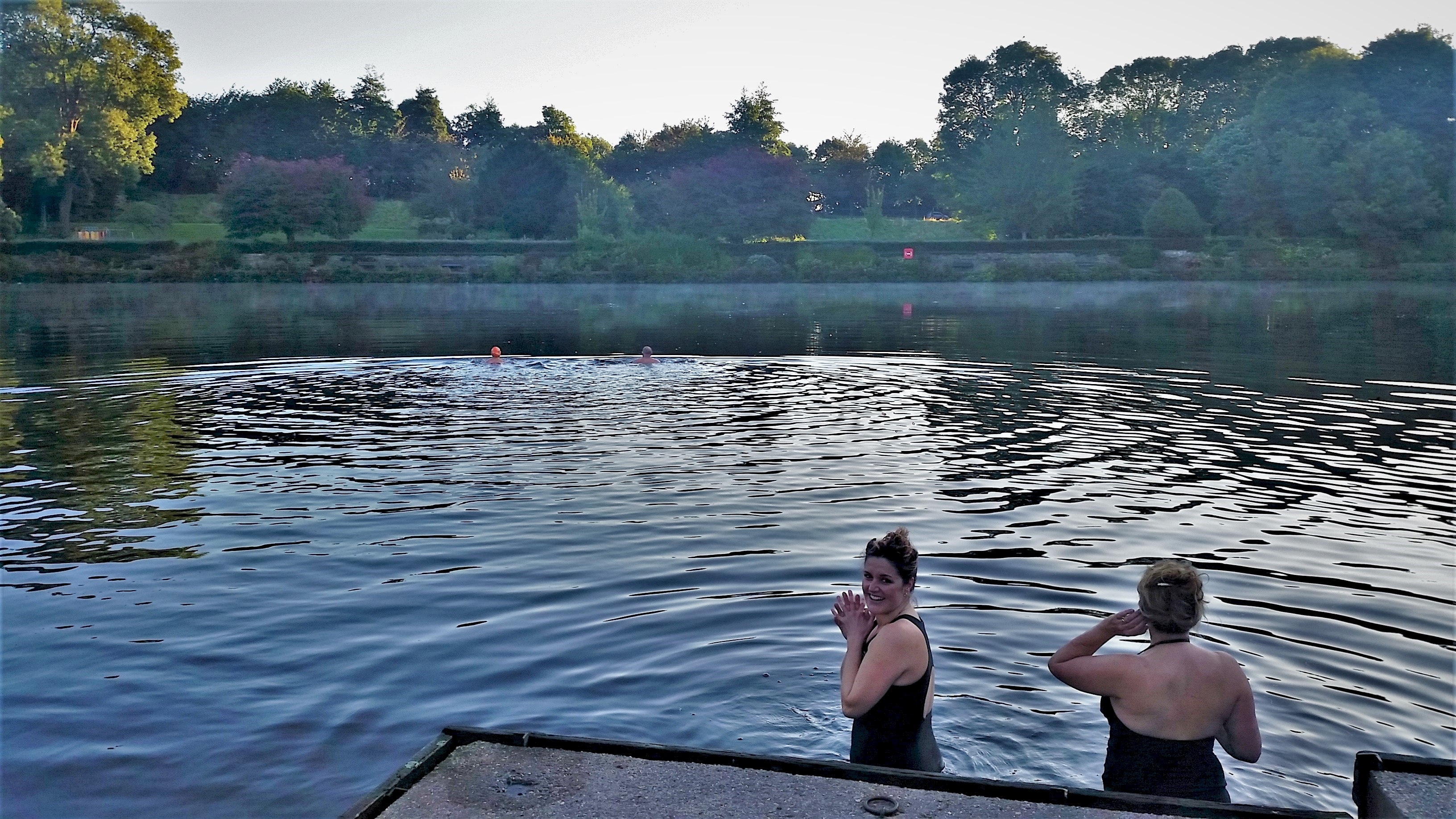 Swimmers enter the mist-covered water early on a spring morning.